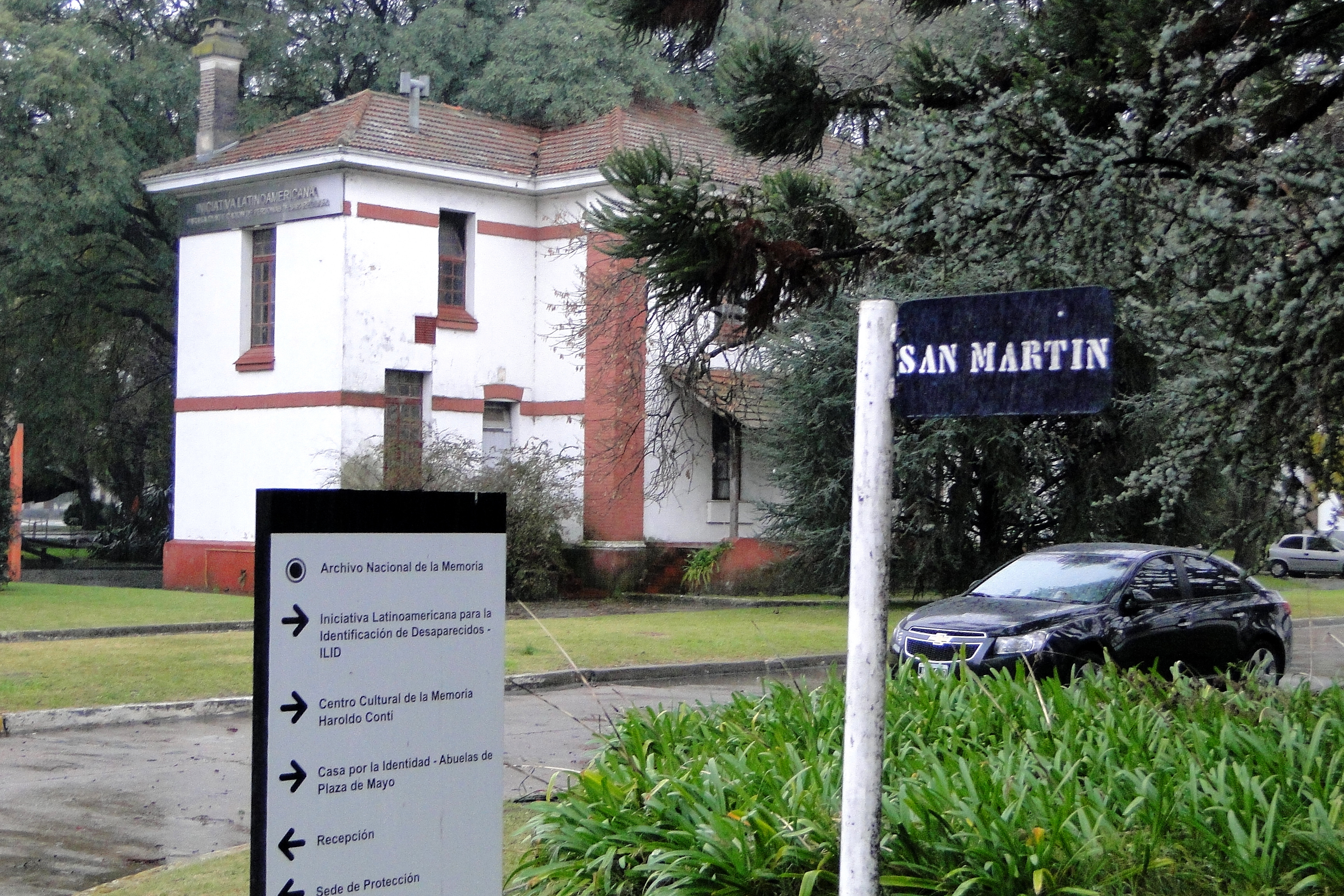 Escuela de Mecanica de la Armada ESMA - Detention and Torture Center - Buenos Aires - Argentina - 02